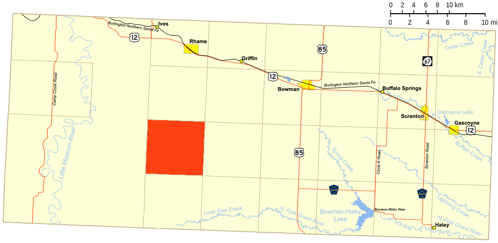 Map of Bowman County, ND, with Nebo Township highlighted